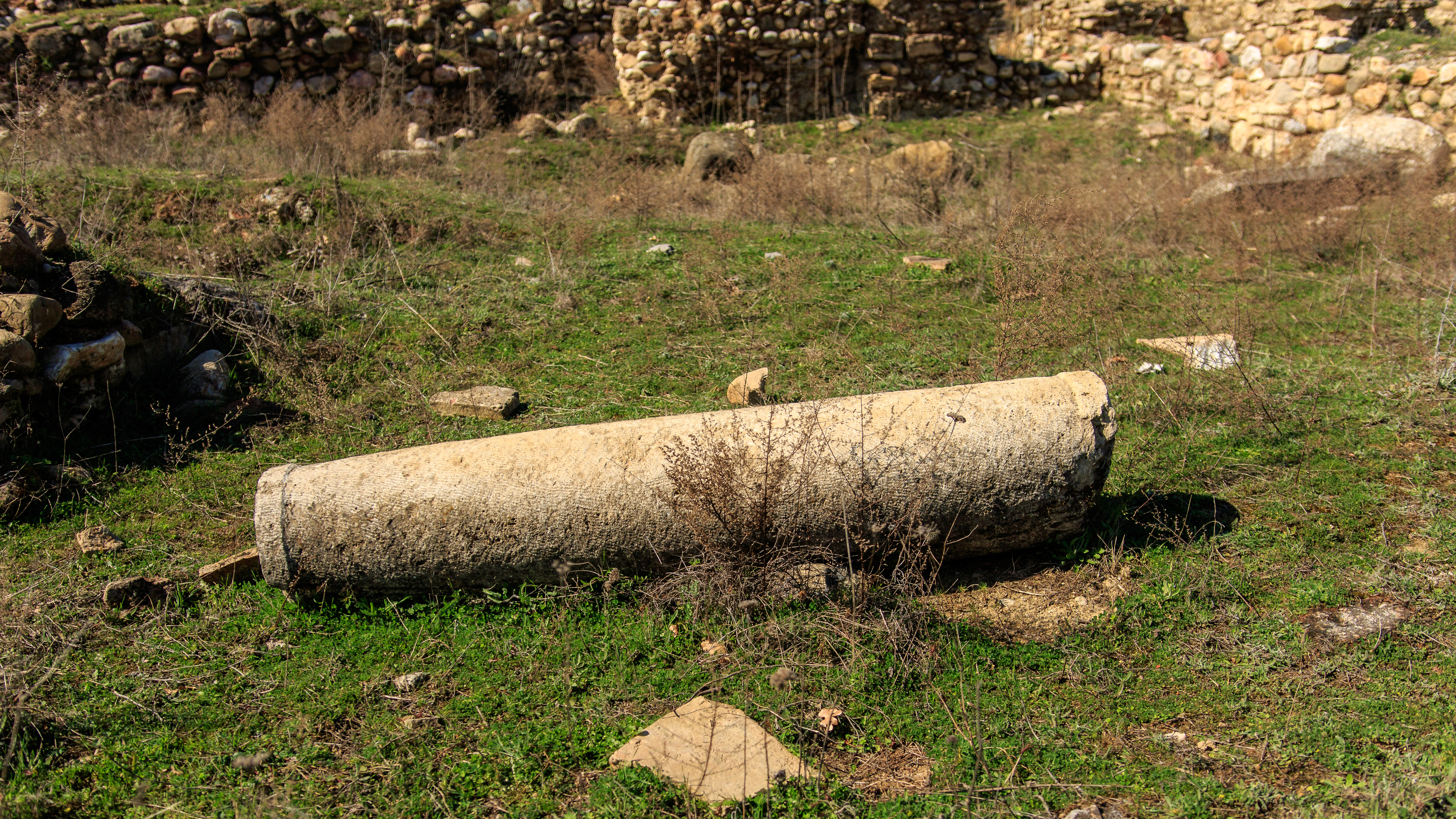 One of the stone artifacts dug up in Tauresium (Macedonia) archaeological site.